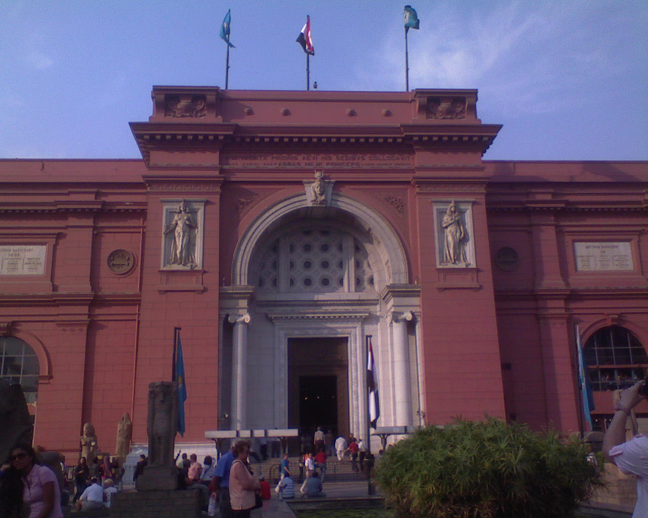 The Egyptian Museum in the Cairo.